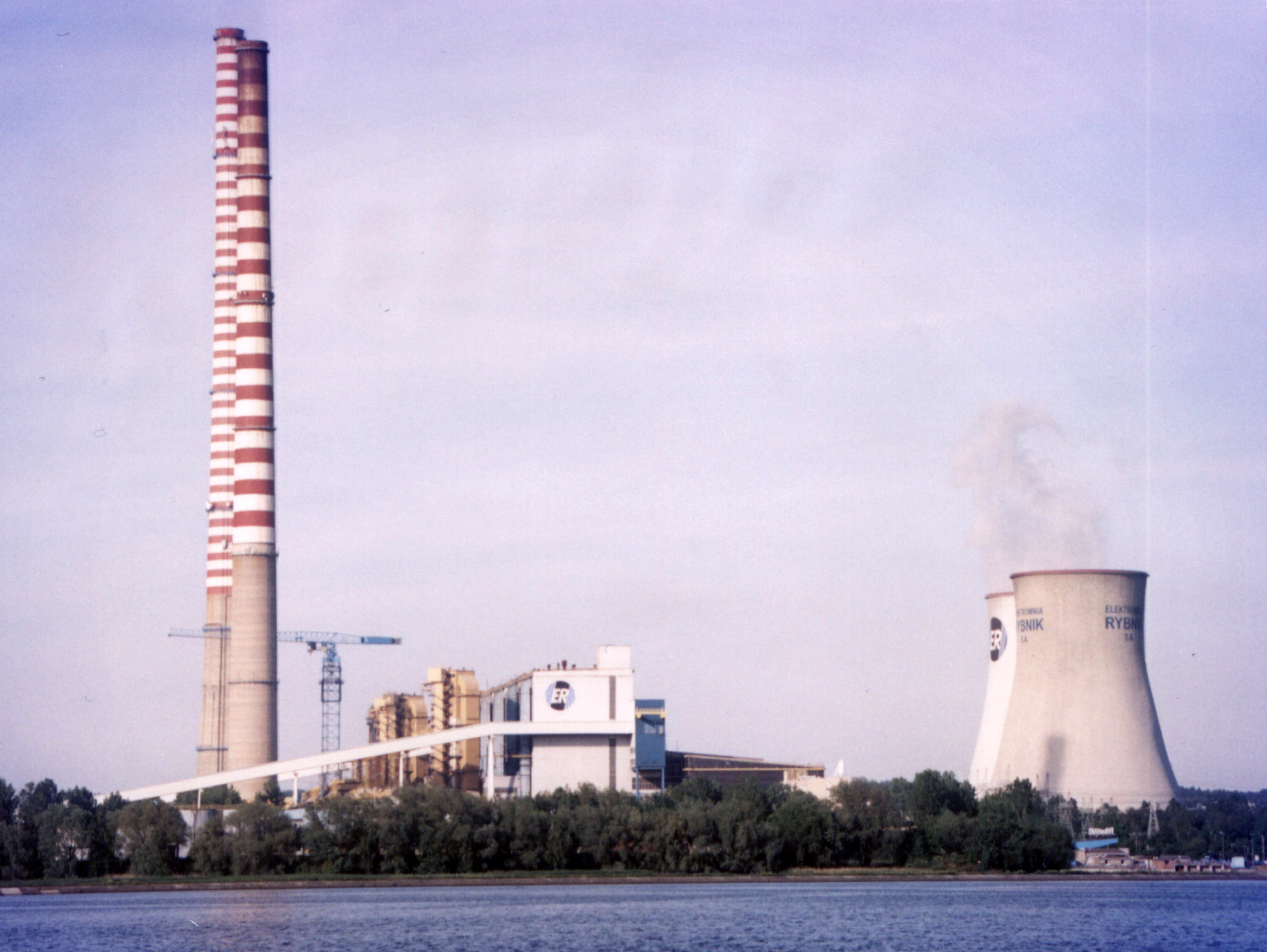 power station of Rybnik